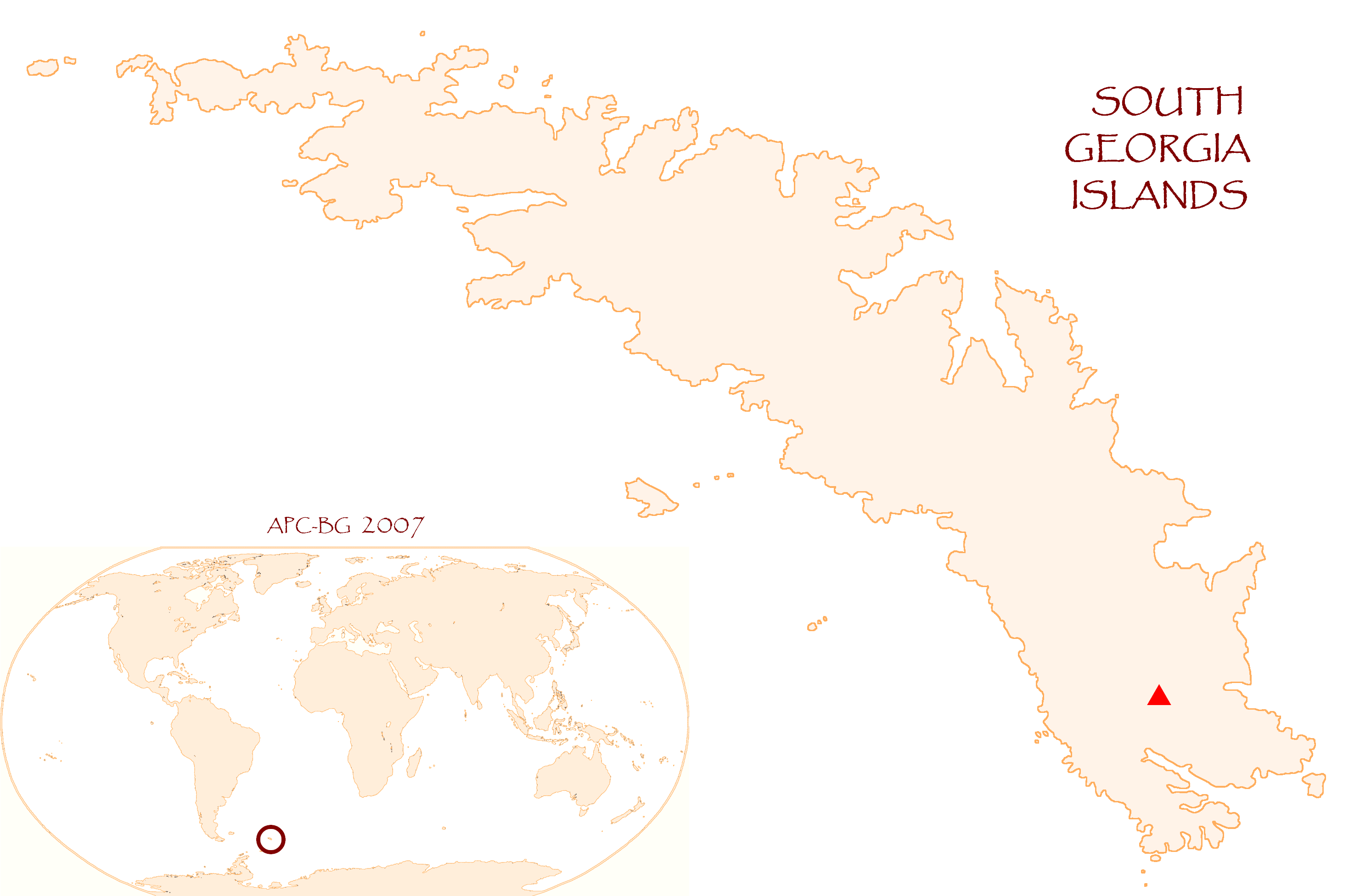 Location map for Mount Carse, Salvesen Range, South Georgia Island